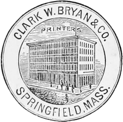 The logo of Clark W. Bryan's printing company in the 19th century; the press, originally located in Holyoke, was responsible for the establishment of Good Housekeeping magazine